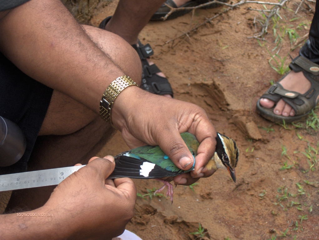 An Indian Pitta is being ringed.